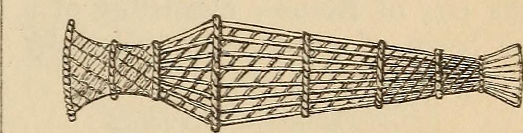 A weel, or basket for snaring fish (Latin nassa) Title: The illustrated companion to the Latin dictionary and Greek lexicon; forming a glossary of all the words representing visible objects connected with the arts, manufactures, and every-day life of the Greeks and Romans, with representations of nearly two thousand objects from the antique Year: 1849 (1840s) Authors: Rich, Anthony, 1803 or 1804-1891 Subjects: Classical dictionaries Publisher: London, Longmans Text Appearing Before Image: NASSA: A weel, or basket for snaring fish, made of wicker work with a wide funnel- Text Appearing After Image: shaped mouth, long body, and narrow throat, constructed, as our own are, in such a manner that the fish could enter it but not get out again. Festus, s. v., Oppian. Hal. iii. 85. and 341. Sil. Ital. v. 48., where the form and manner of making it is described at length, and corresponding exactly with the annexed figure, composed from two Roman mosaics, in both of which it is represented lying half-buried amongst sedges in a shallow piece of water.